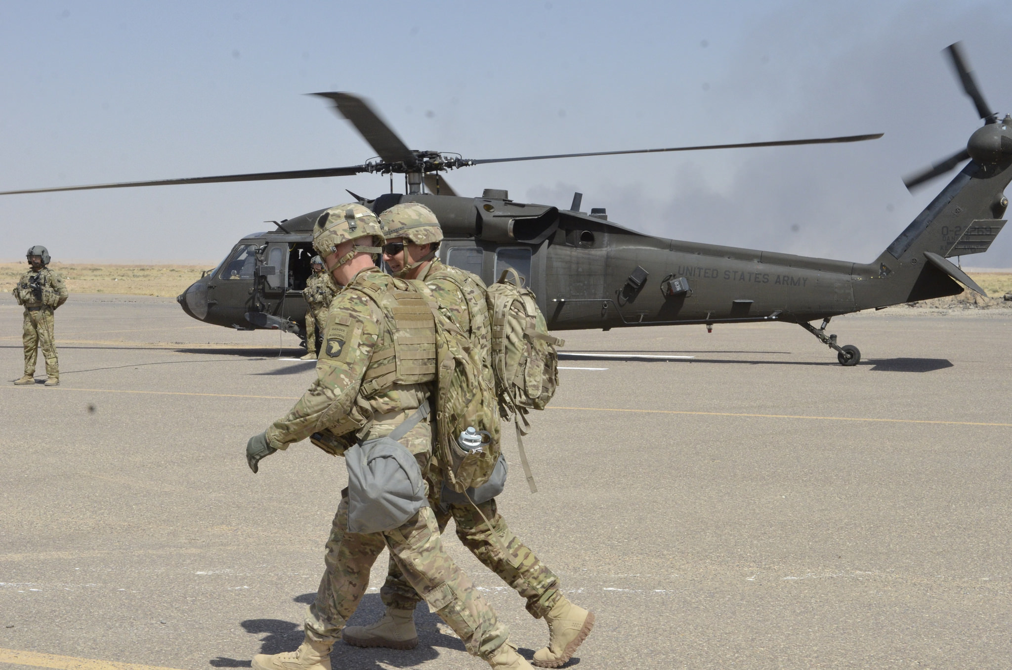 Lt. Gen. Stephen J. Townsend, commander Combined Joint Task Force Operation Inherent Resolve, visits Task Force Strike, 101st Airborne Division (Air Assault) at Qayyarah West Airfield, Iraq. Coalition troops arrived to Qayyarah West Airfield to enable the Iraqi Security Forces to defeat Da'esh by providing logistical, engineering and artillery fires in support of the liberation of Mosul. The mission of Operation Inherent Resolve is to defeat Da’esh (an Arabic acronym for ISIL) in Iraq and Syria by supporting the Government of Iraq with trainers, advisors and fire support, to include aerial strikes and artillery fire. (USMC photo by Capt. Ryan E. Alvis/Released)